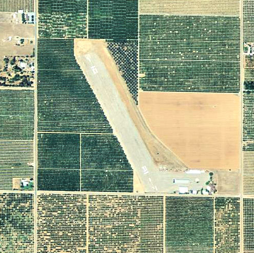 USGS digital orthophoto of Eckert Field Airport in California